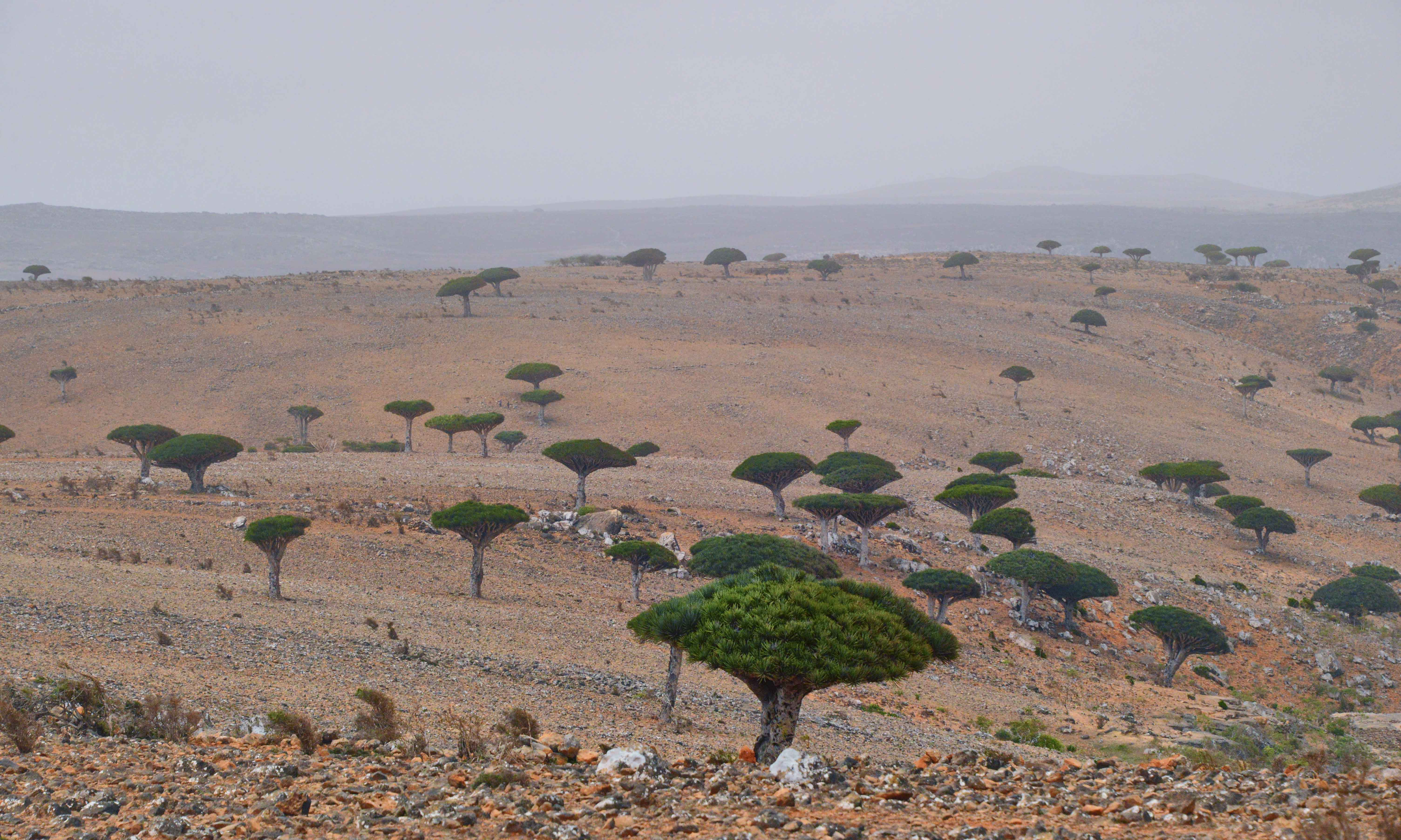 Dragon's Blood Tree (Dracaena cinnabari) — trees endemic to/on Socotra island, Yemen.